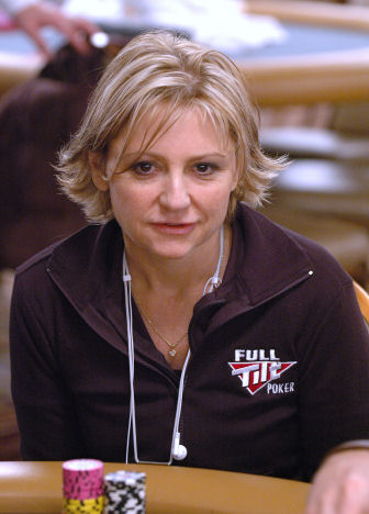 Jennifer Harman in 2006 World Series of Poker - Rio Las Vegas.